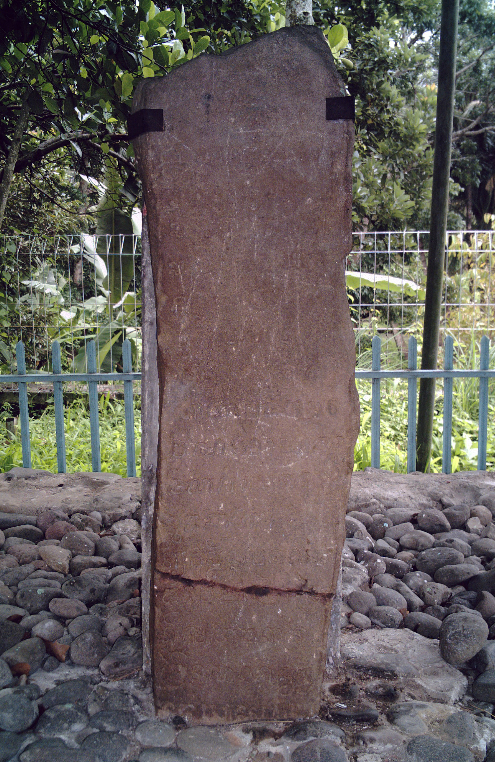 The Kuburajo inscription in West Sumatra province, Indonesia